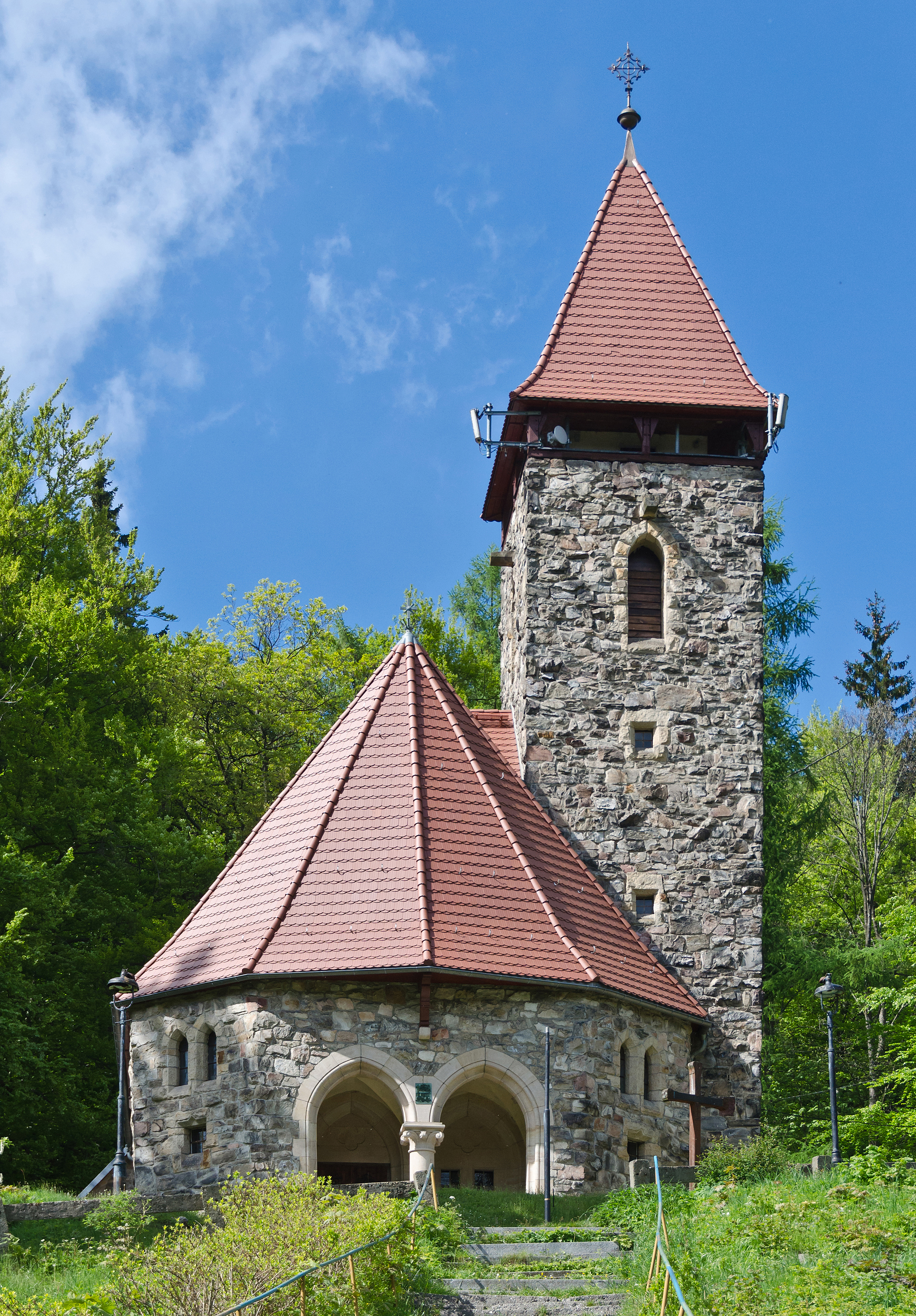 Holy Cross church in Międzygórze Ta fotografia przedstawia zabytek wpisany do rejestru zabytków pod numerem ID 727961